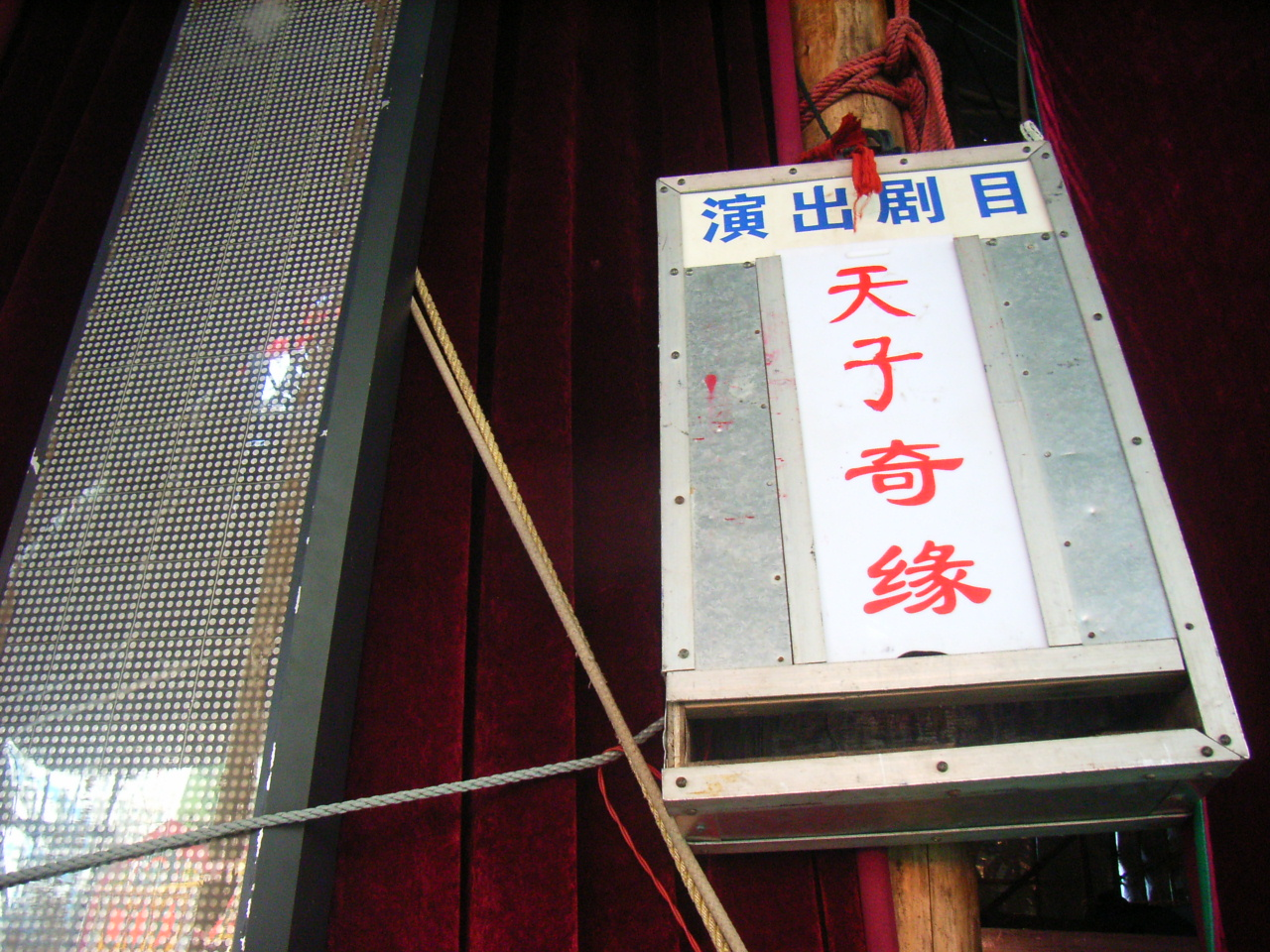 2009年9月zh:銅鑼灣摩頓台第112屆zh:盂蘭勝會 潮汕文化之zh:潮劇劇目《天子奇緣》於 摩頓台臨時遊樂場演出